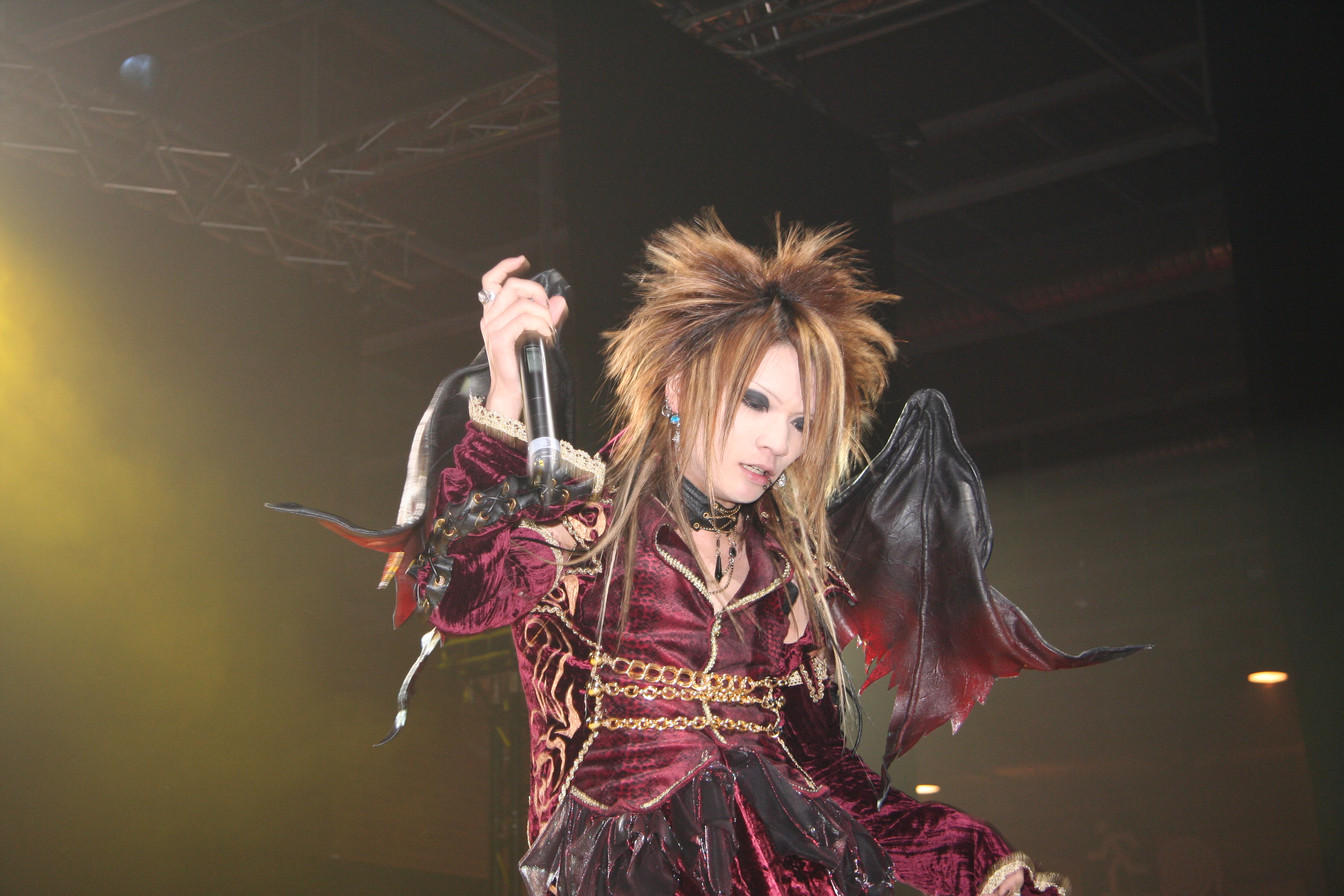 Dio - Distraught Overlord live at Japan Expo 2007 (Paris, France).